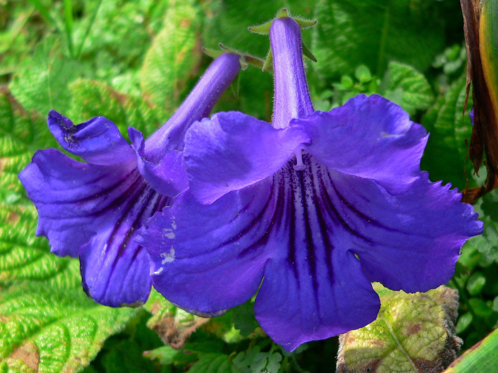 Photo of Streptocarpus parviflorus at the San Francisco Botanical Garden